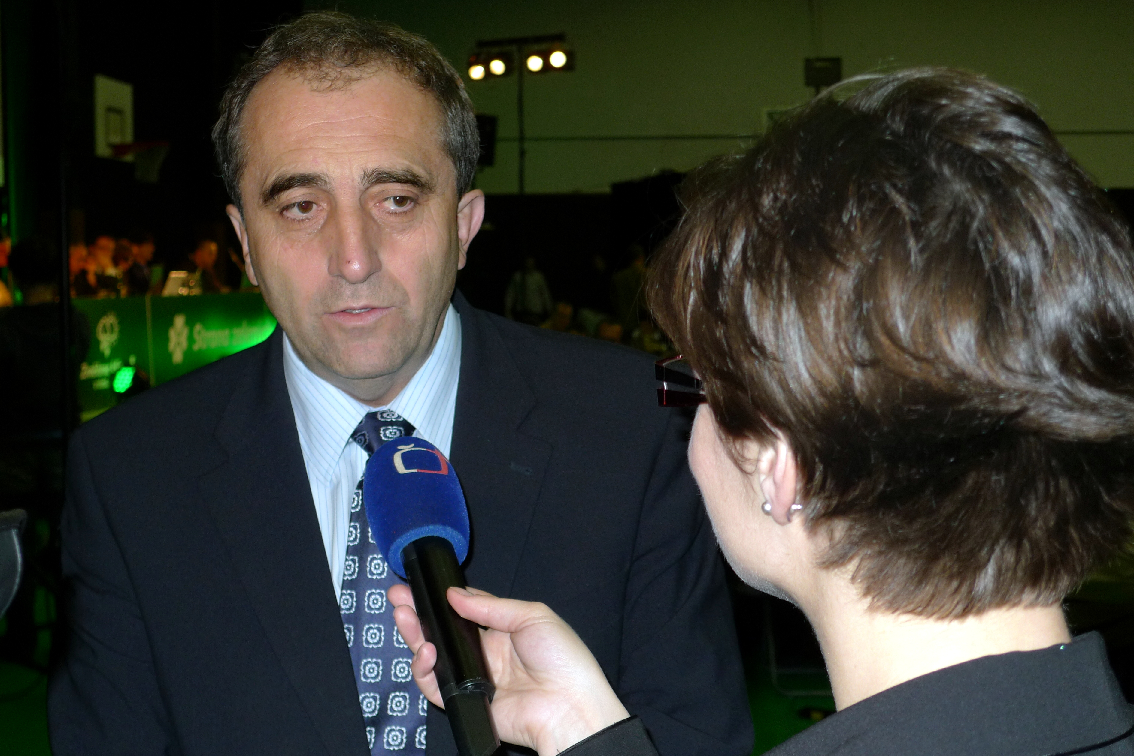 František Pelc, Ministry of enviroment of the Czech Republic